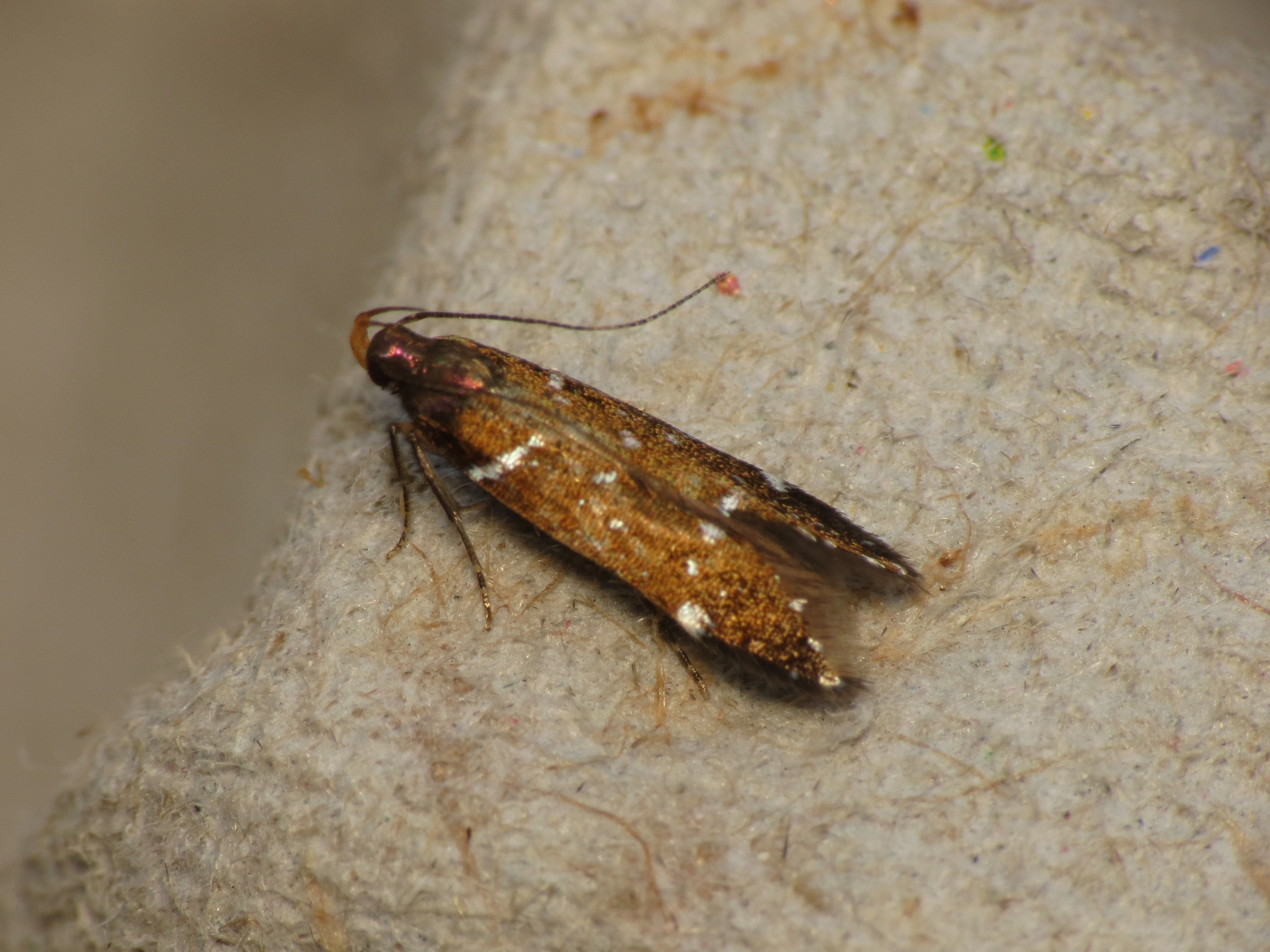 Argolamprotes micella ([Denis & Schiffermüller], 1775), to Robinson trap, Søborg, Denmark, 10/11 July 2014